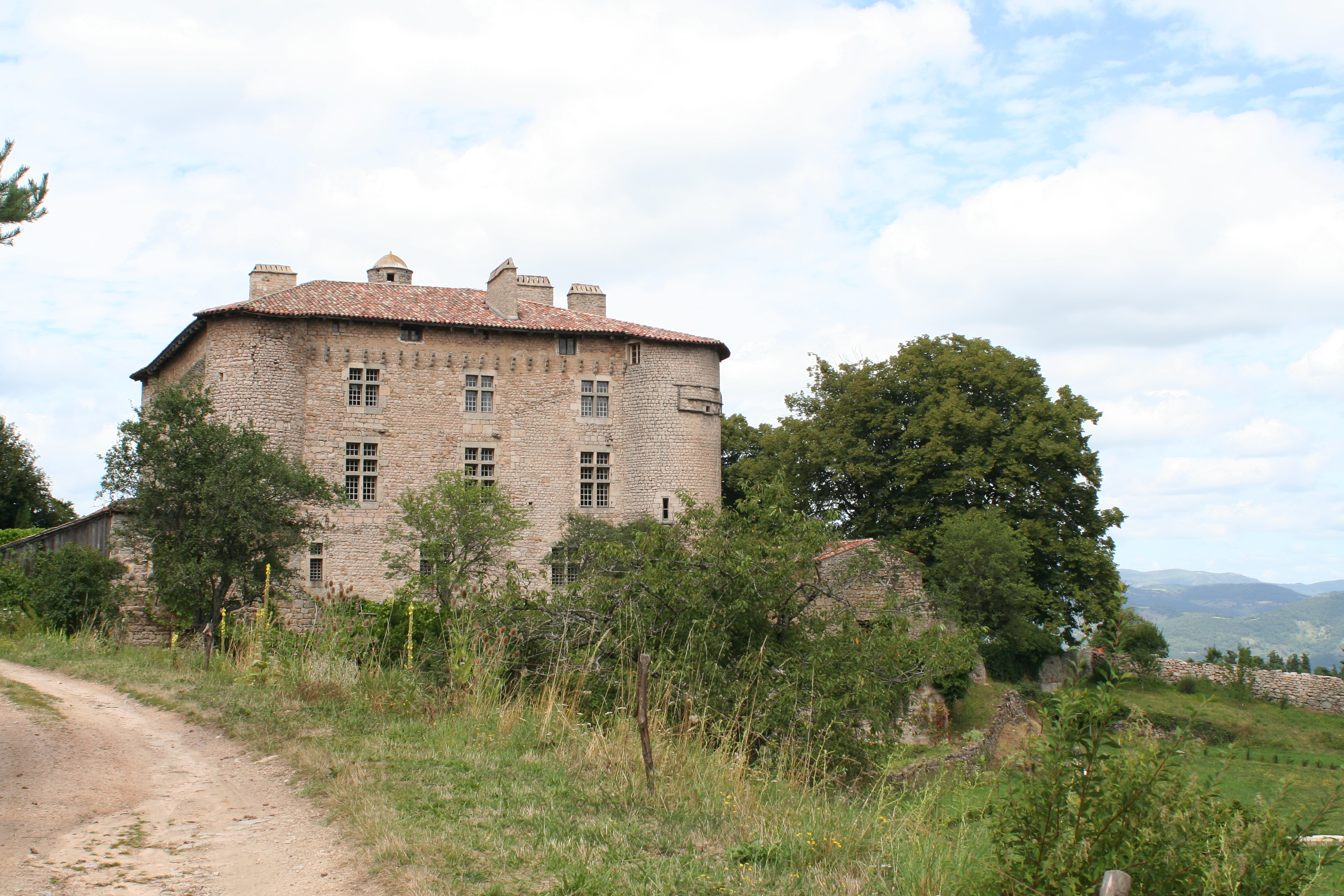 Castle of Maisonseule